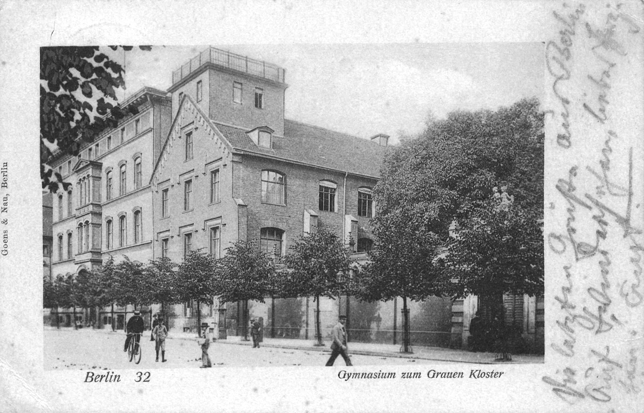 an old postcard from 1901 showing the Berlinisches Gymnasium zum Grauen Kloster in Berlin-Mitte